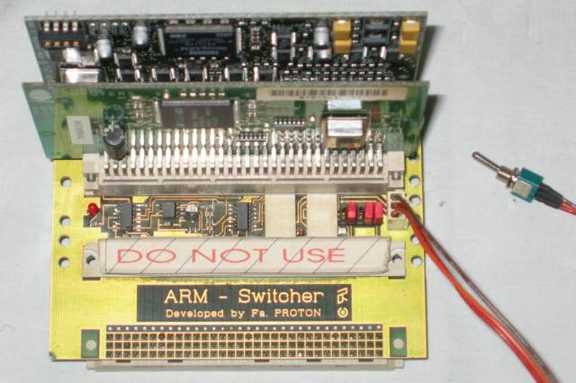 ACE ARM-Switcher with CPUs.This ARM-Switcher has an ARM 710 in the front and a StrongARM CPU at the back. The attached switch is used to switch between CPUs. The Risc PC has to be rebooted when the CPU is switched.